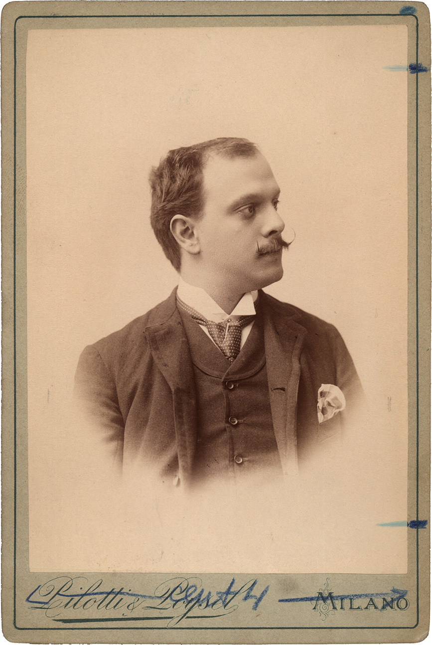 Portrait of Stanislao Gastaldon, composer (1861-1939). Photo by Pilotti e Poysel, before 1939.